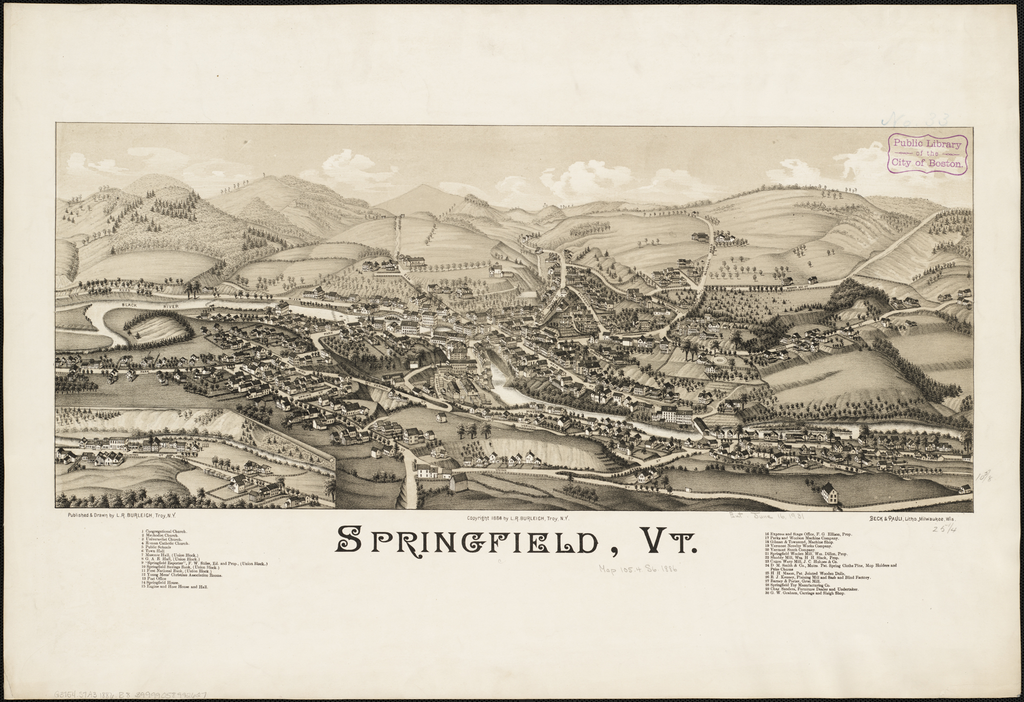 Zoom into this map at . Author: Burleigh, L. R. Publisher: L.R. Burleigh Date: c1886. Location: Springfield (Vt.) Scale: Not drawn to scale. Call Number: G3754.S7A3 1886.B8